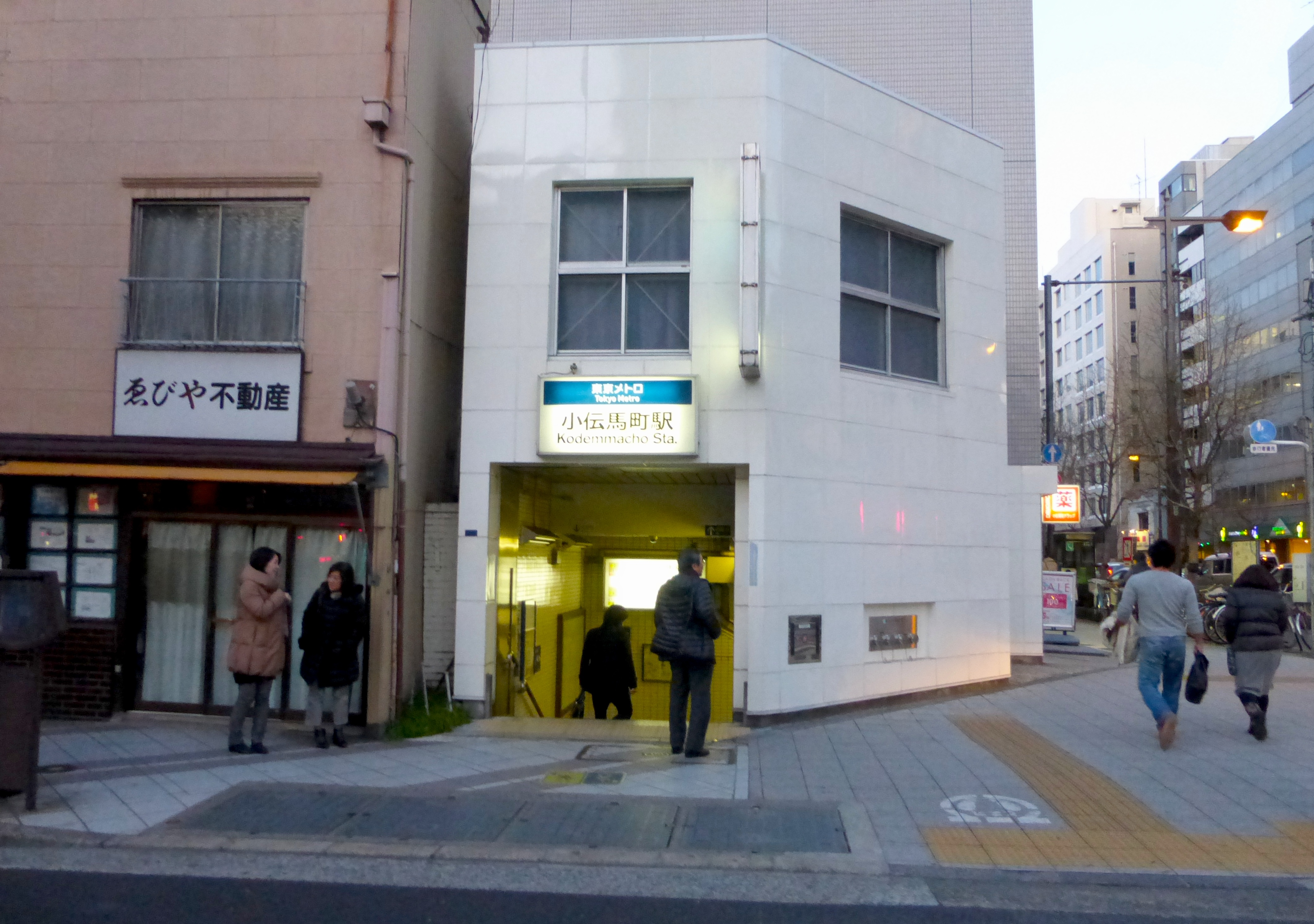 小伝馬町駅2番出入口 (Kodenmachi station exit 2)